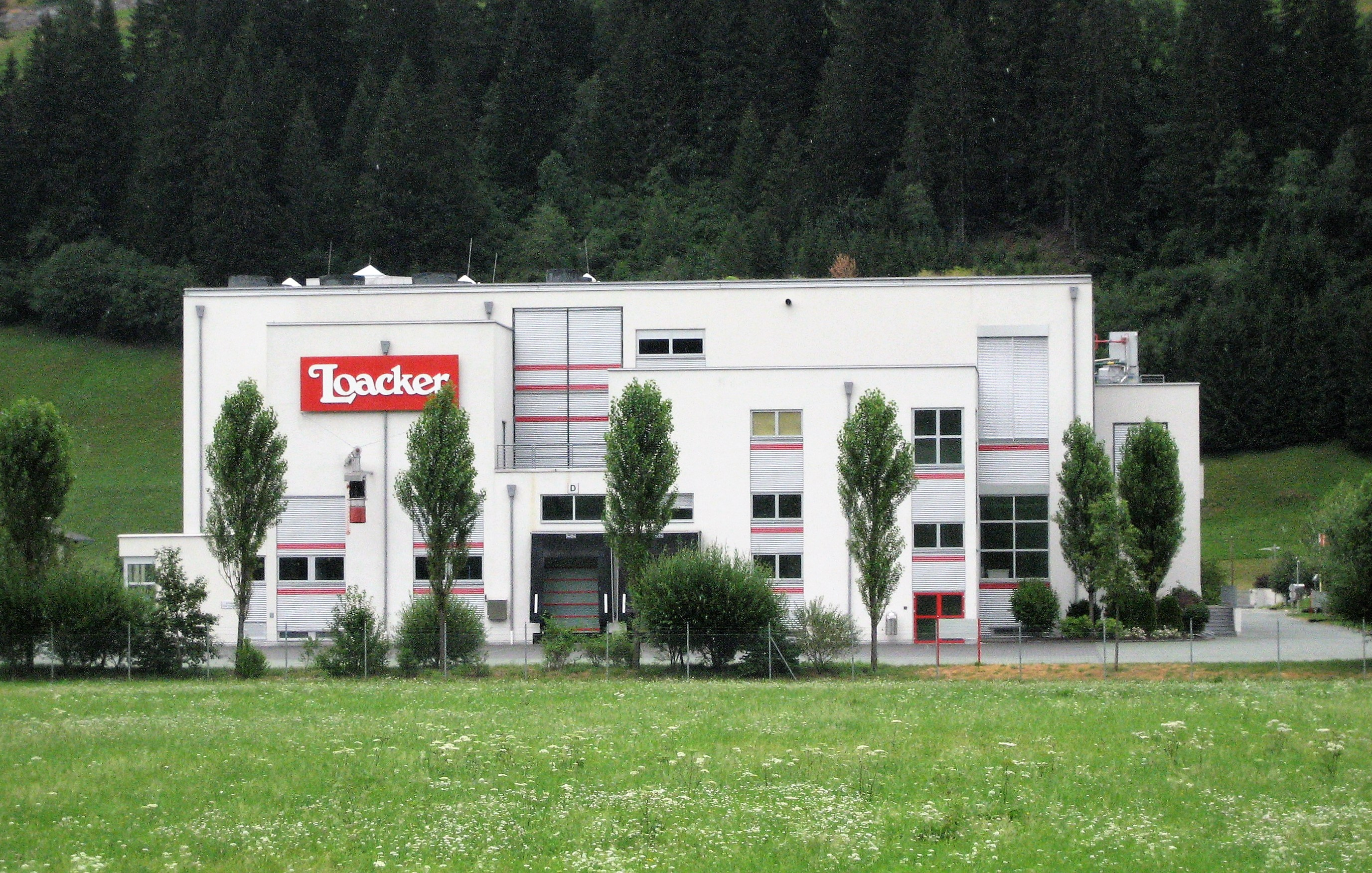 Branch of the Loacker AG in Heinfels in Eastern Tyrol